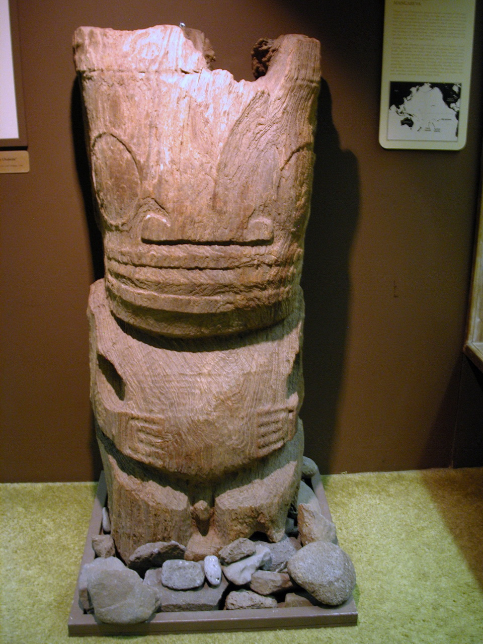 One of the wooden carvings representing a variety of gods and deified ancestors from the tiny volcanic islands of Marquesas, Marquesas Islands, located some 1000 miles southeast of Tahiti; displayed at Bishop Museum, Hawaii.